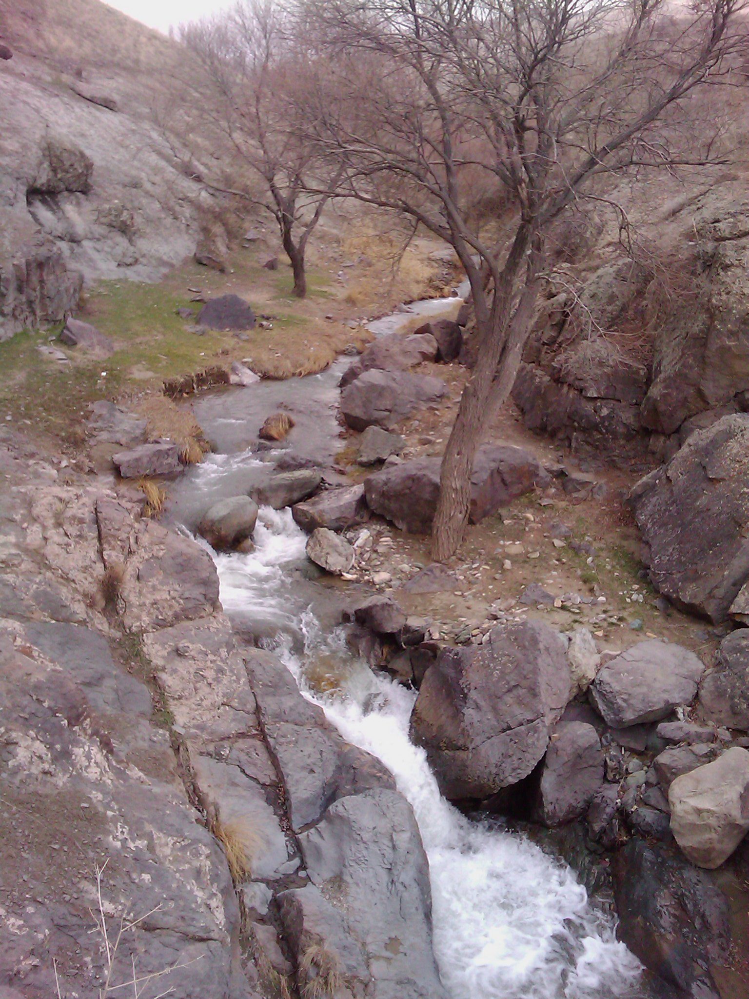 Barajin area, Qazvin province, Iran